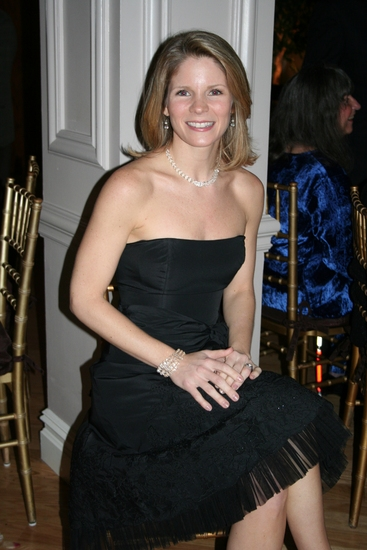 Kelli O'Hara (South Pacific) at NYS ARTS Fall Gala 2008